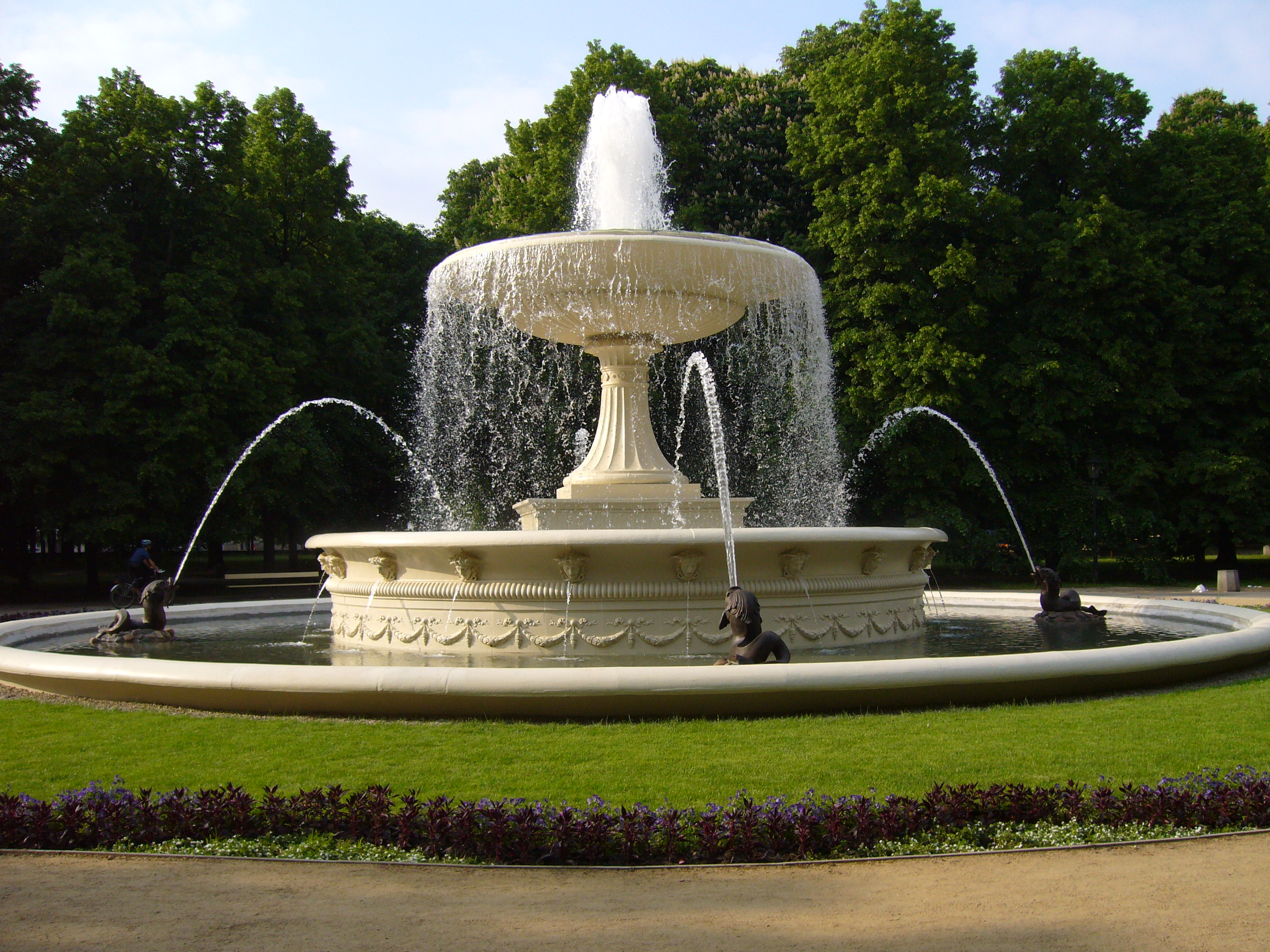 Fountain in Saxoonian Garden in Warsaw, Poland